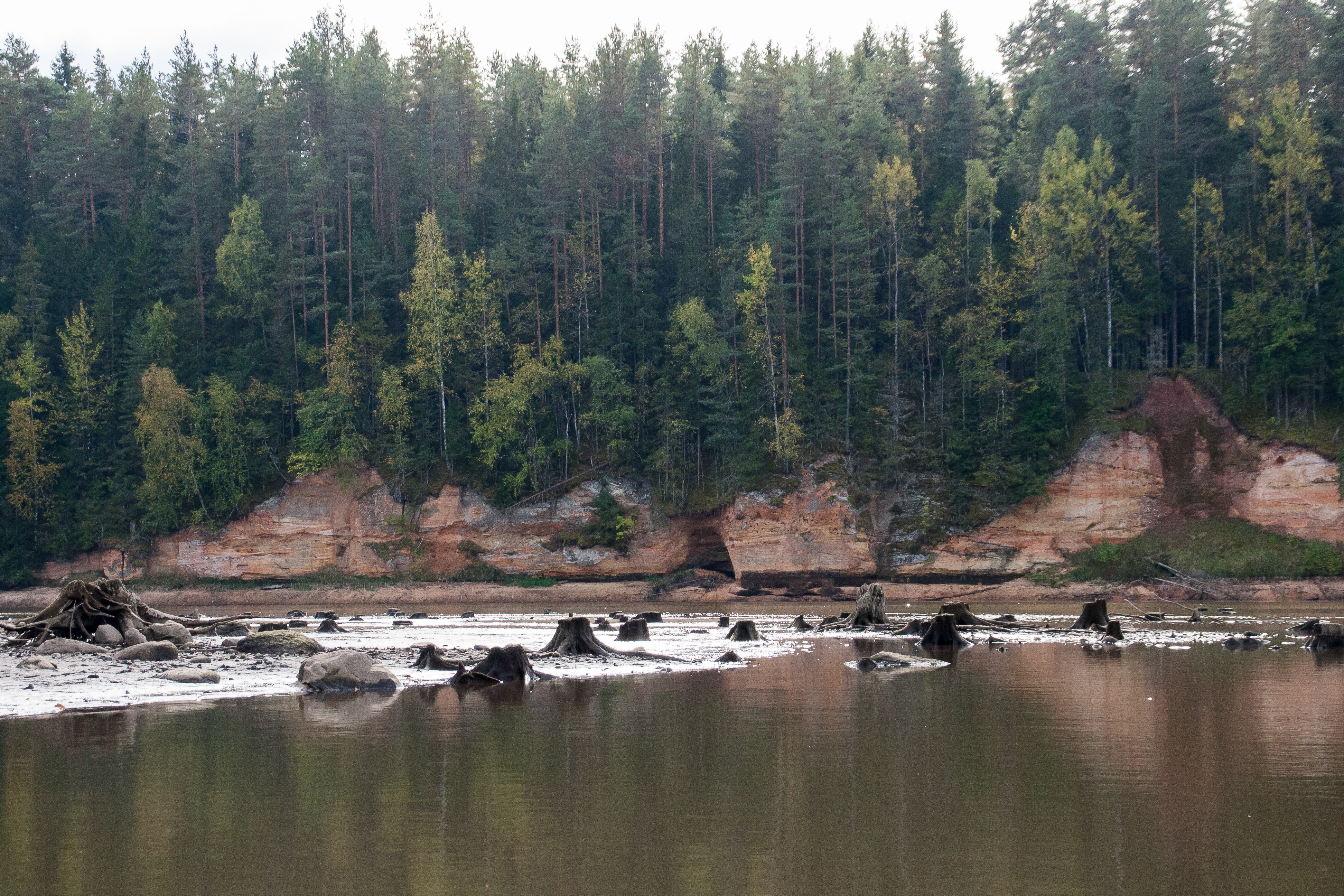 A famous sandstone cliff